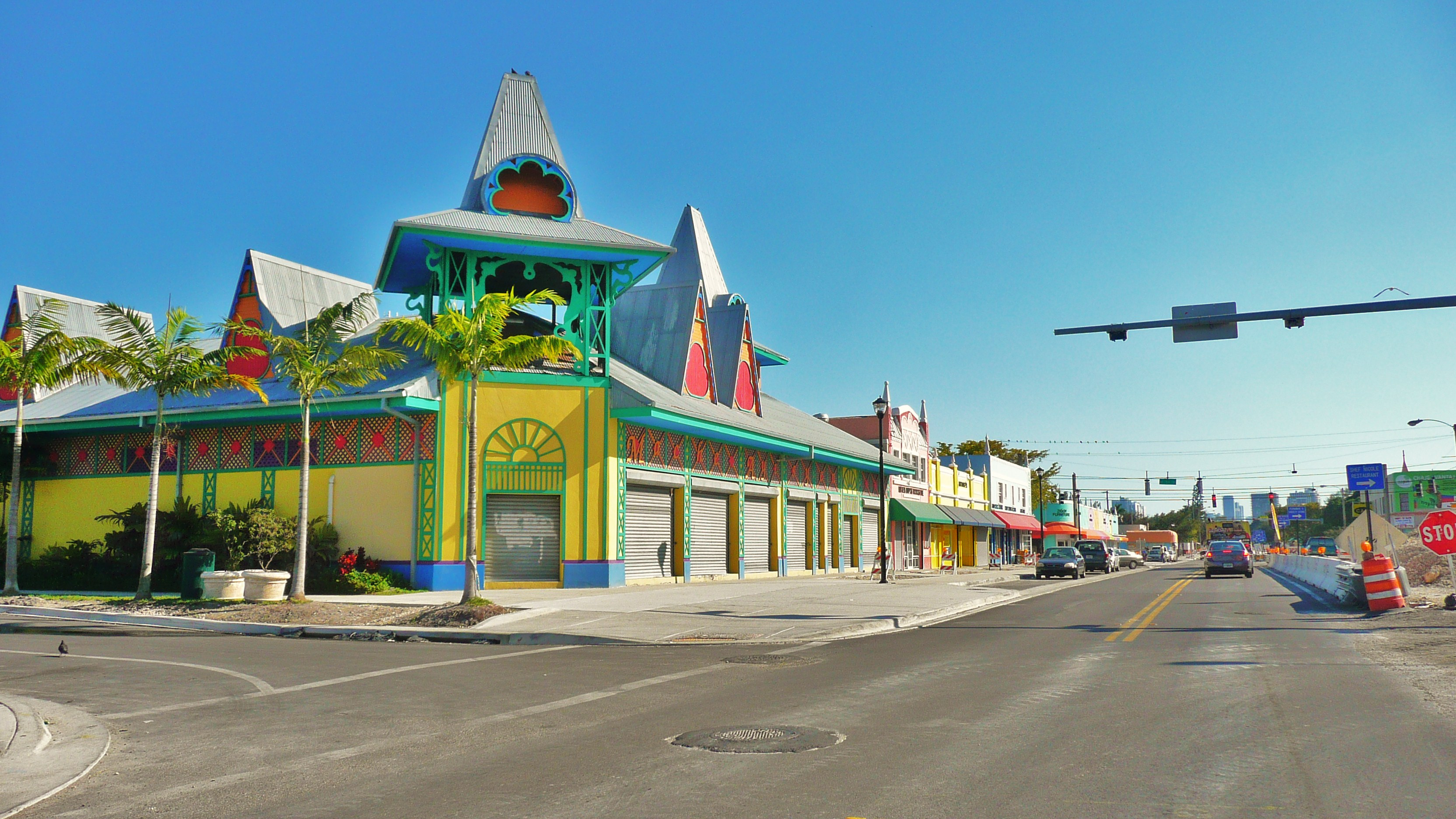 Digital photo taken by Marc Averette. Commercial center in Little Haiti in Miami, Florida, United States.